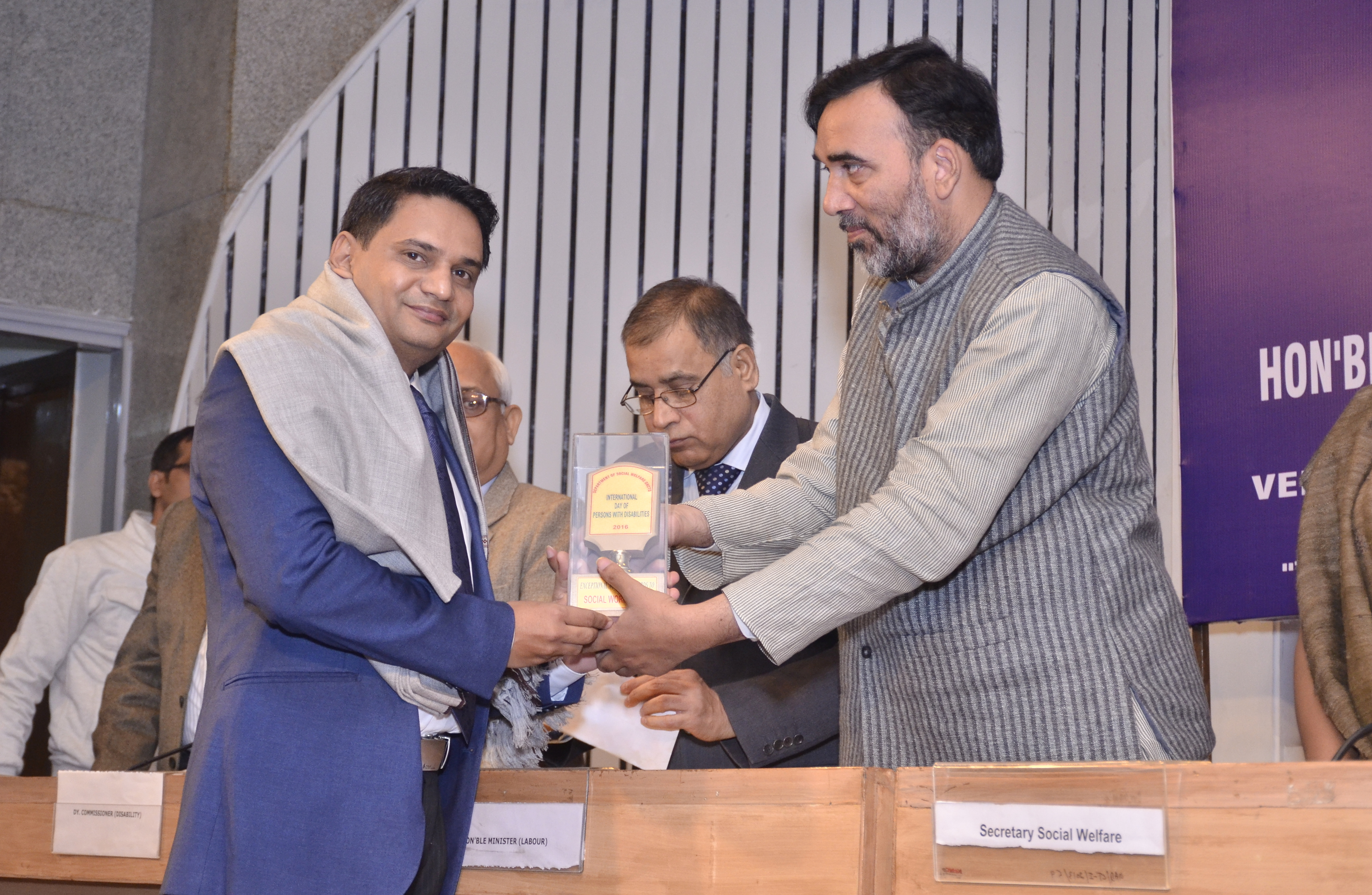 विकलांगता क्षेत्र में उत्कृष्टा प्रदर्शन के लिए डॉ सतेंद्र सिंह को दिल्ली सर्कार द्वारा २०१६ में राज्य पुरुस्कार से सम्मानित किया गया